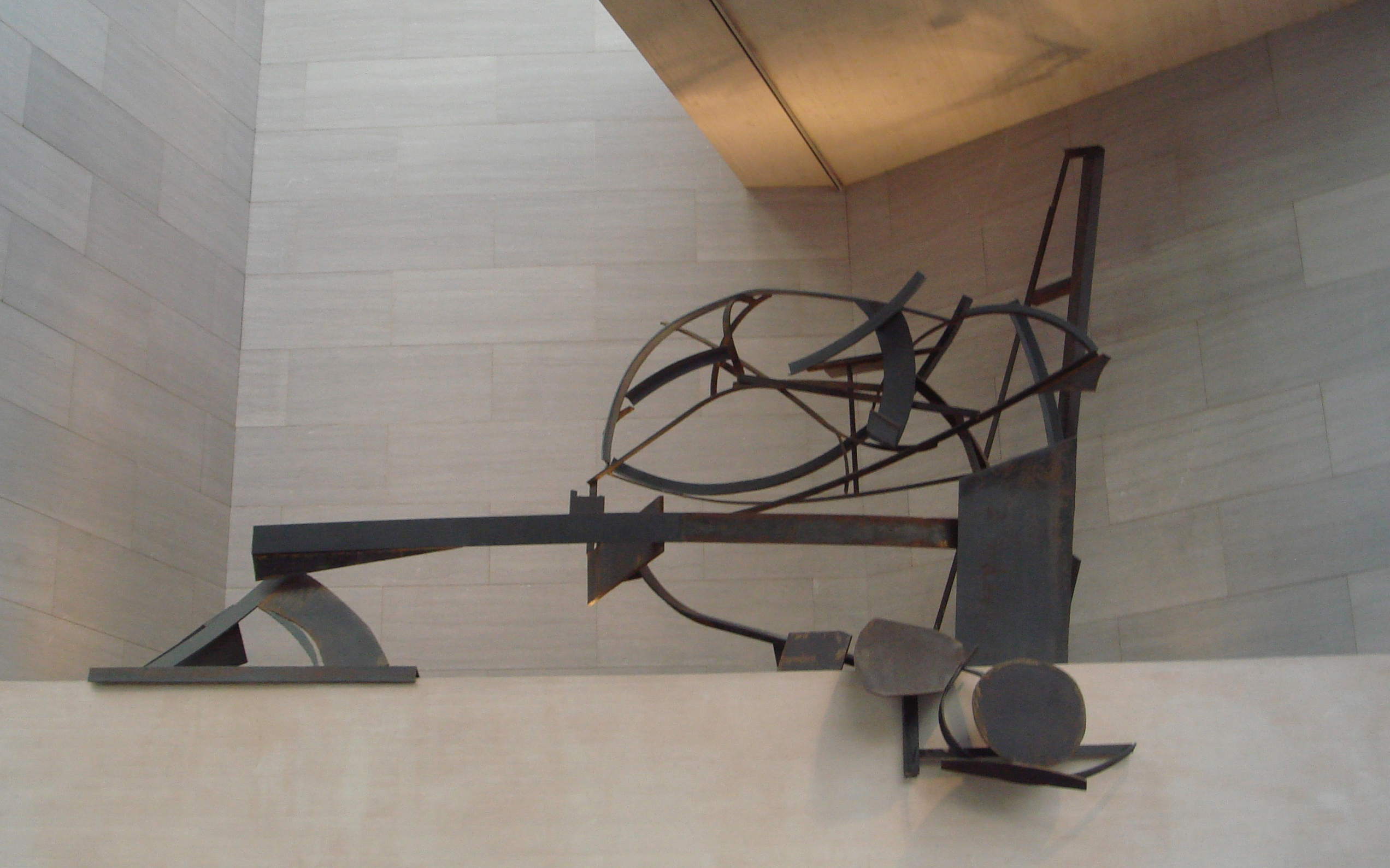 A sculpture by Anthony Caro on display in the National Gallery of Art in Washington D.C.